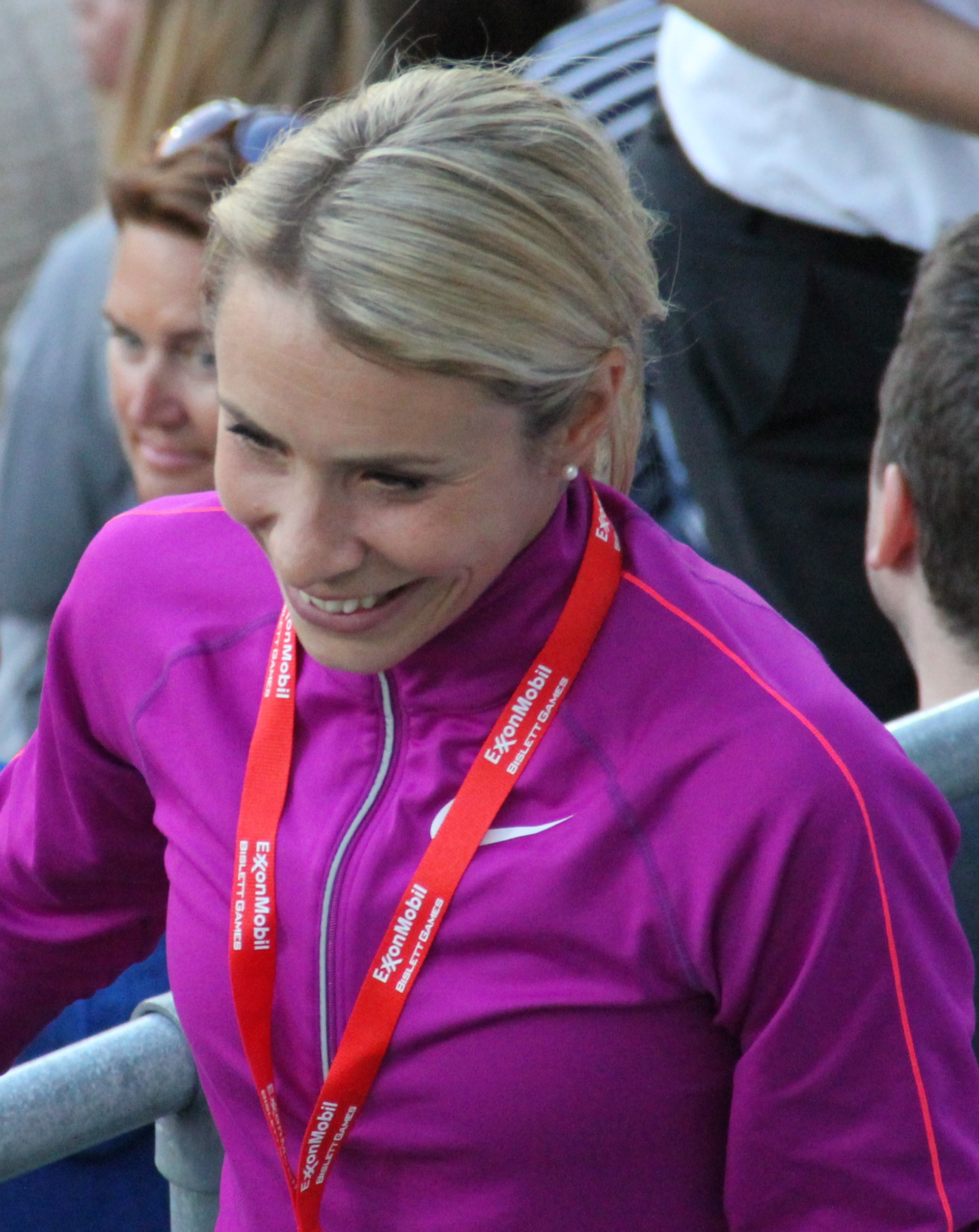 Ingvill Måkestad Bovim, norwegian trackathlete and middledistance runner.